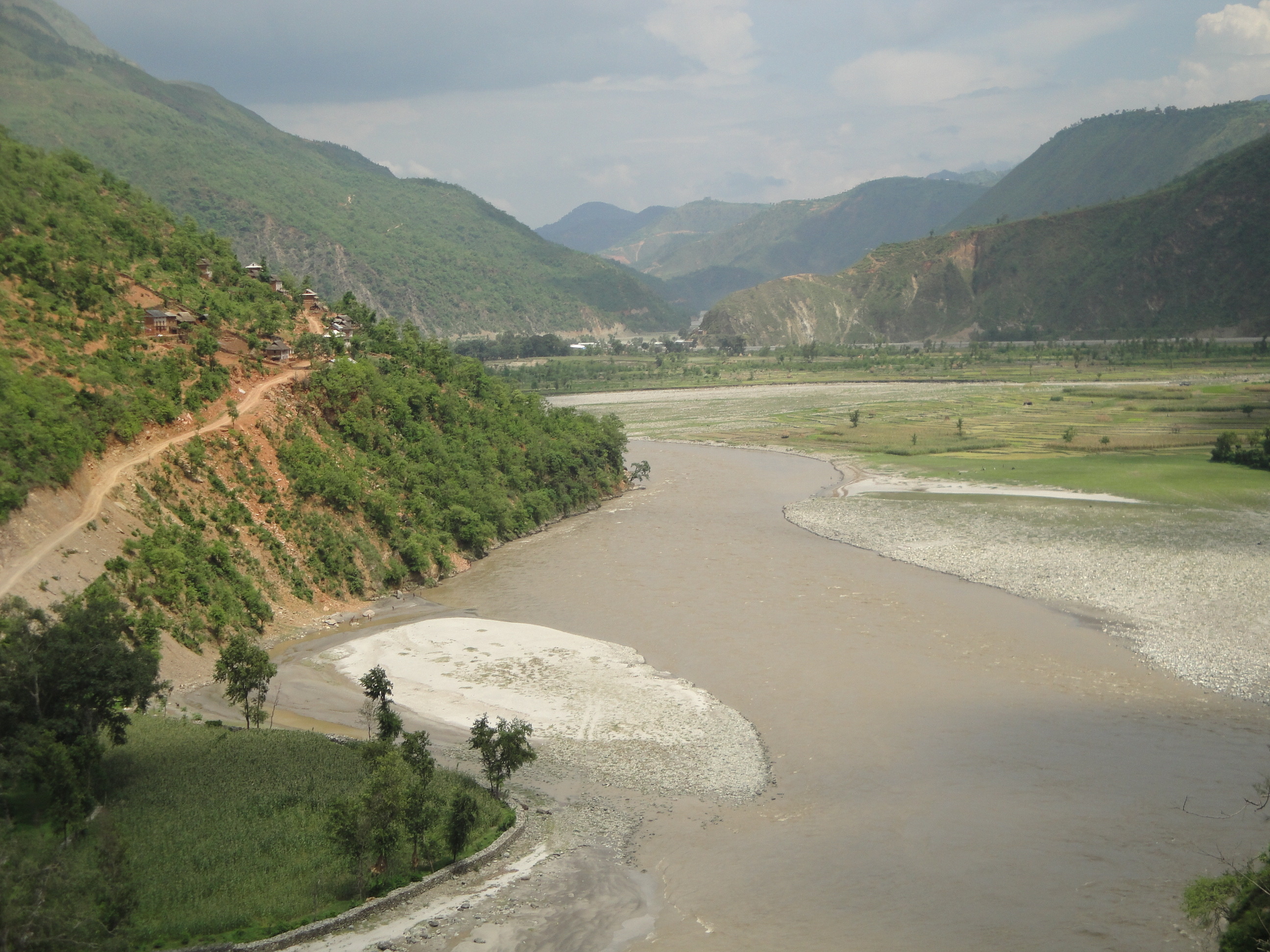 The Roshi River in Kabhrepalanchok District.